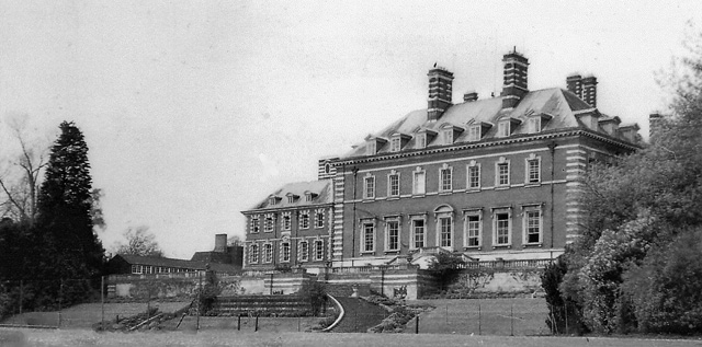 Bryanston School, Bryanston, Dorset, Great Britain. Front of school, from tennis courts at SE. I was a pupil there, 1940-44.